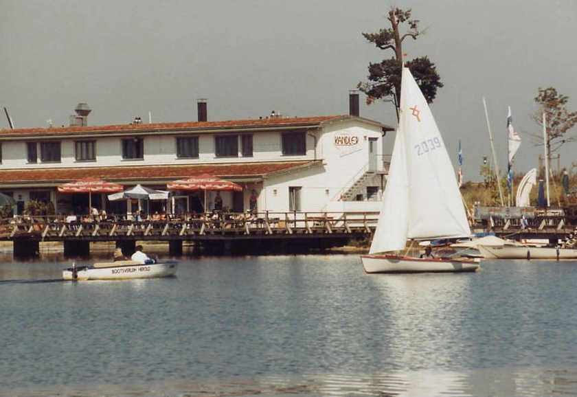 This image shows the Cospudener See Lake Cospuden near Leipzig in Saxony.